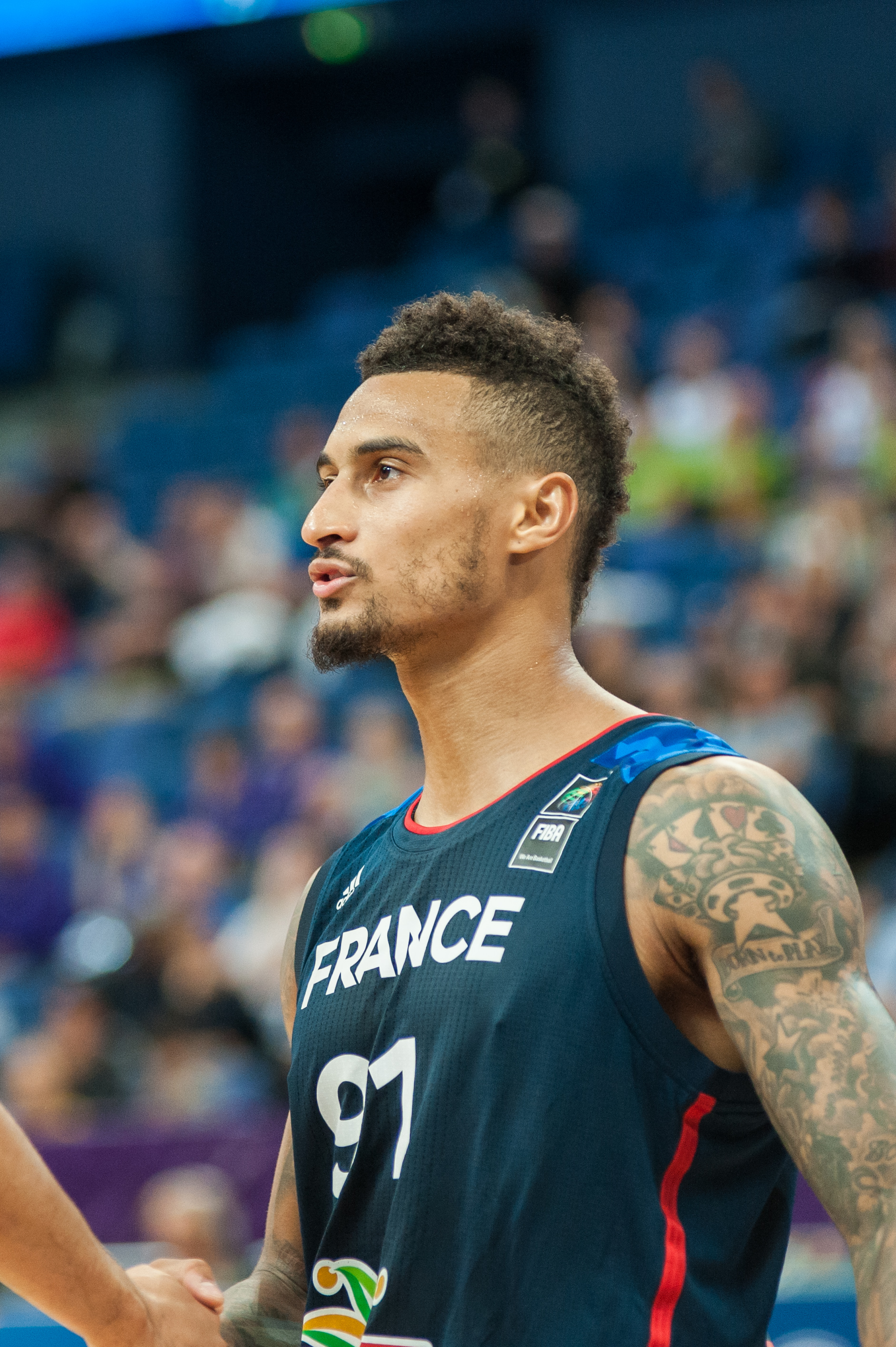 EuroBasket 2017 Group A game between Greece and France at Hartwall Arena in Helsinki, Finland.